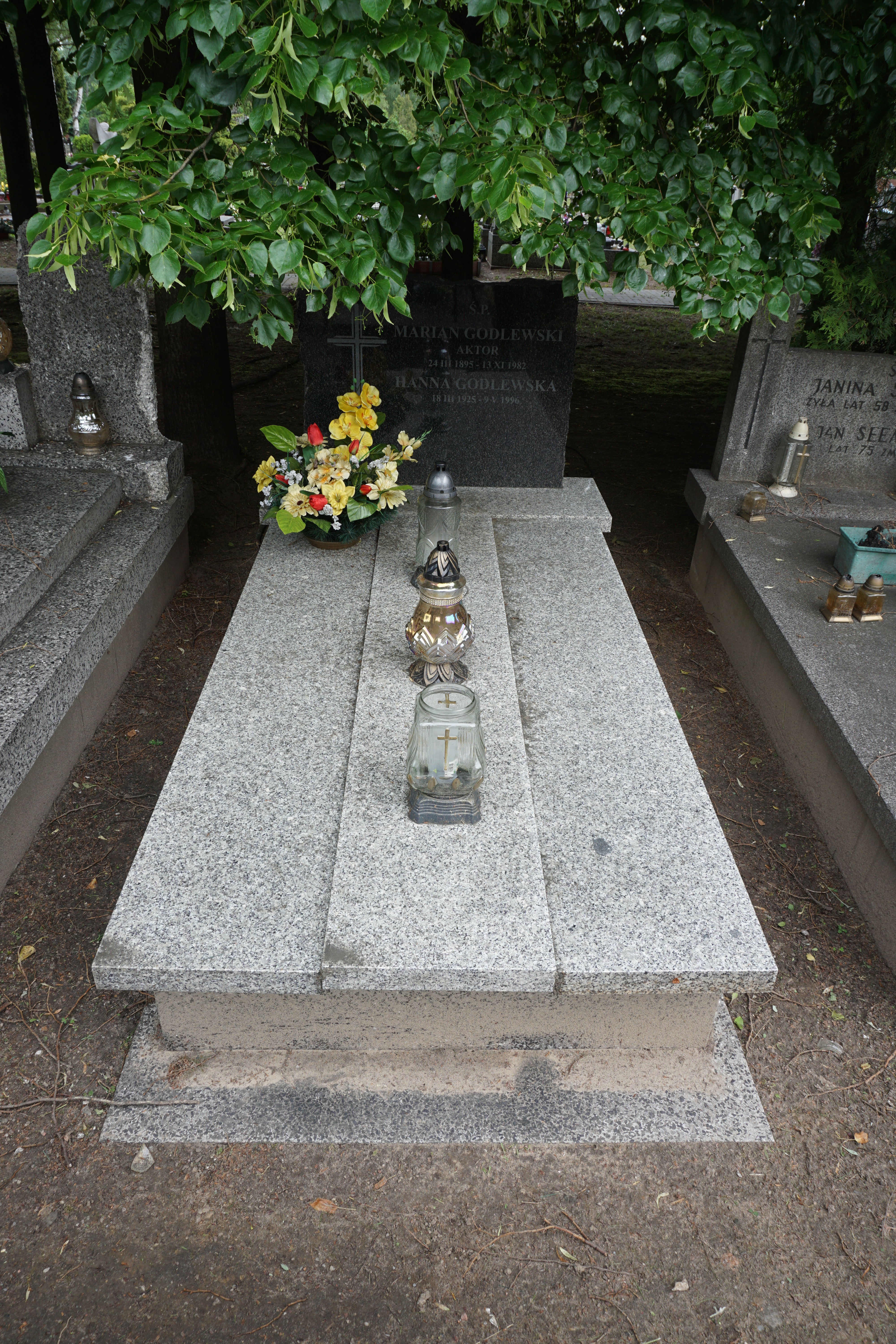 The grave of Marian Godlewski at the North Municipal Cemetery in Warsaw (section E-XI-1, row 3, grave 8)